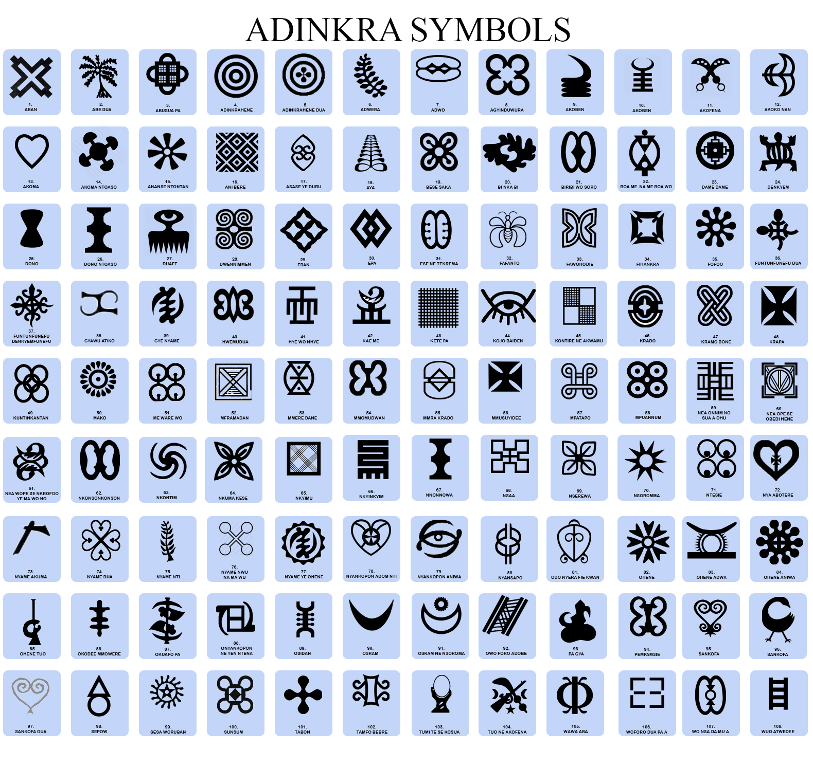 This is a sample collection of Adinkra symbols